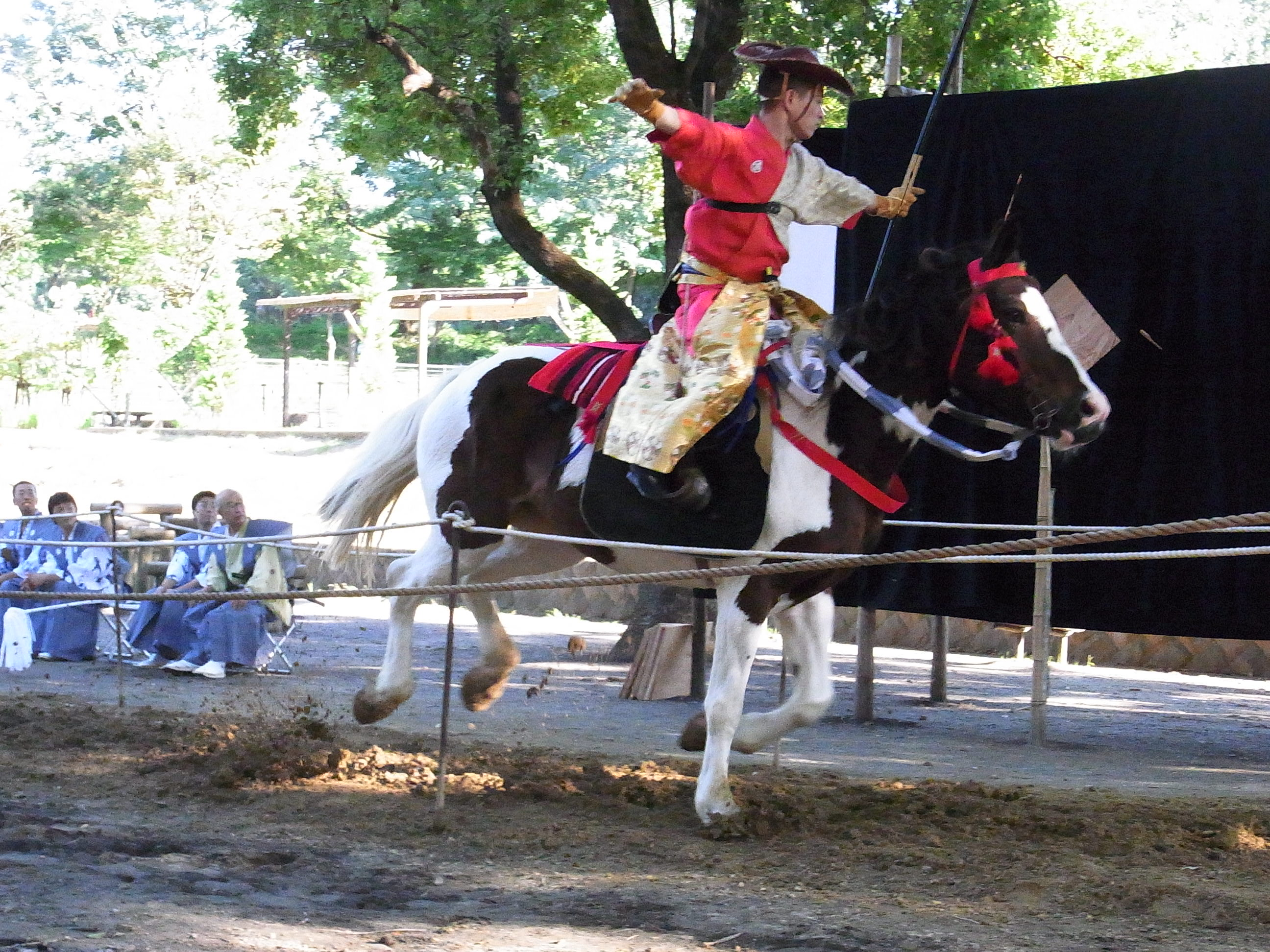 Yabusame at Takadanobaba in Shinjuku-ku, Tokyo